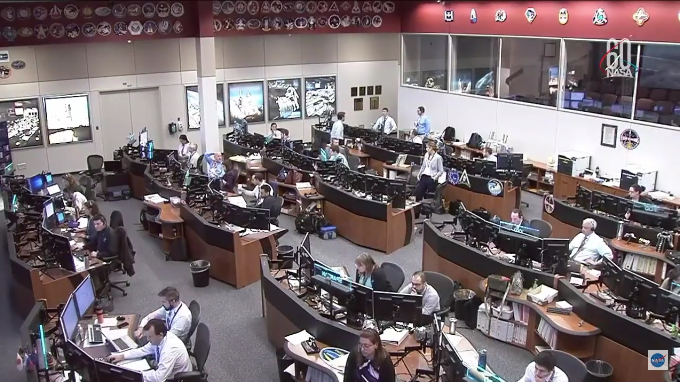 NASA Mission Control following the launch of Soyuz MS-10 mission, which was aborted due to rocket booster failure. Flight Director Mary Lawrence (white jacket) stands at right of centre.